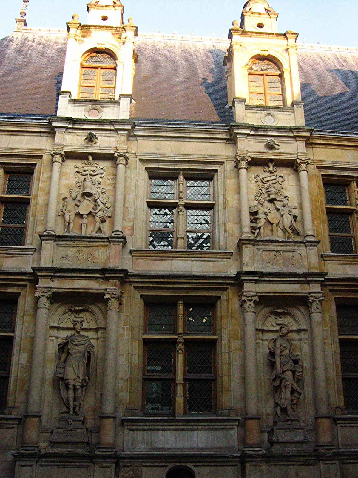 Courtyard of the Hôtel d'Escoville, in Caen – Nothern facade.